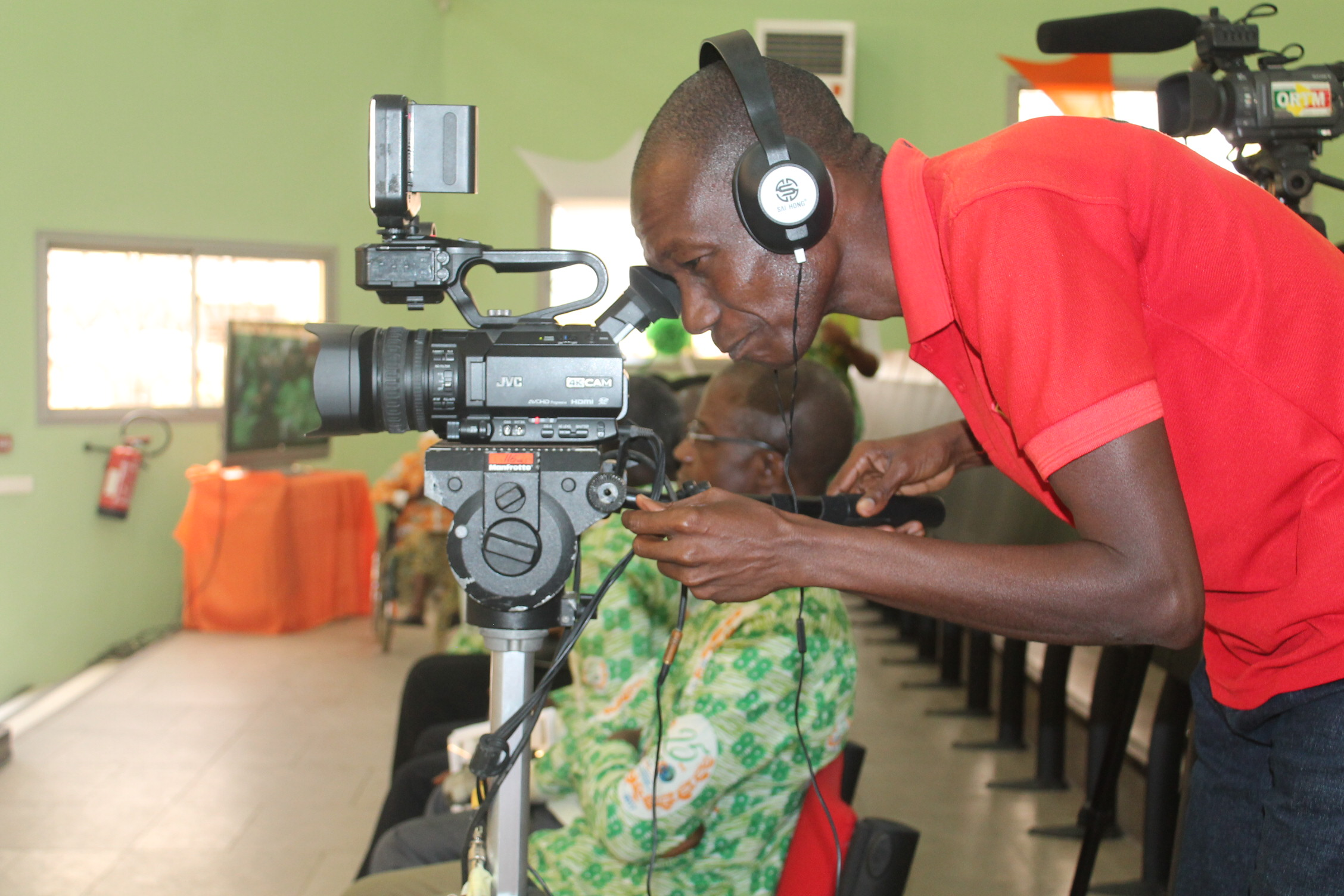 Professionnel Audiovisuel Ivoirien à ISTC Polytechnque (Abidjan) This is an image of "African people at work" from Ivory Coast